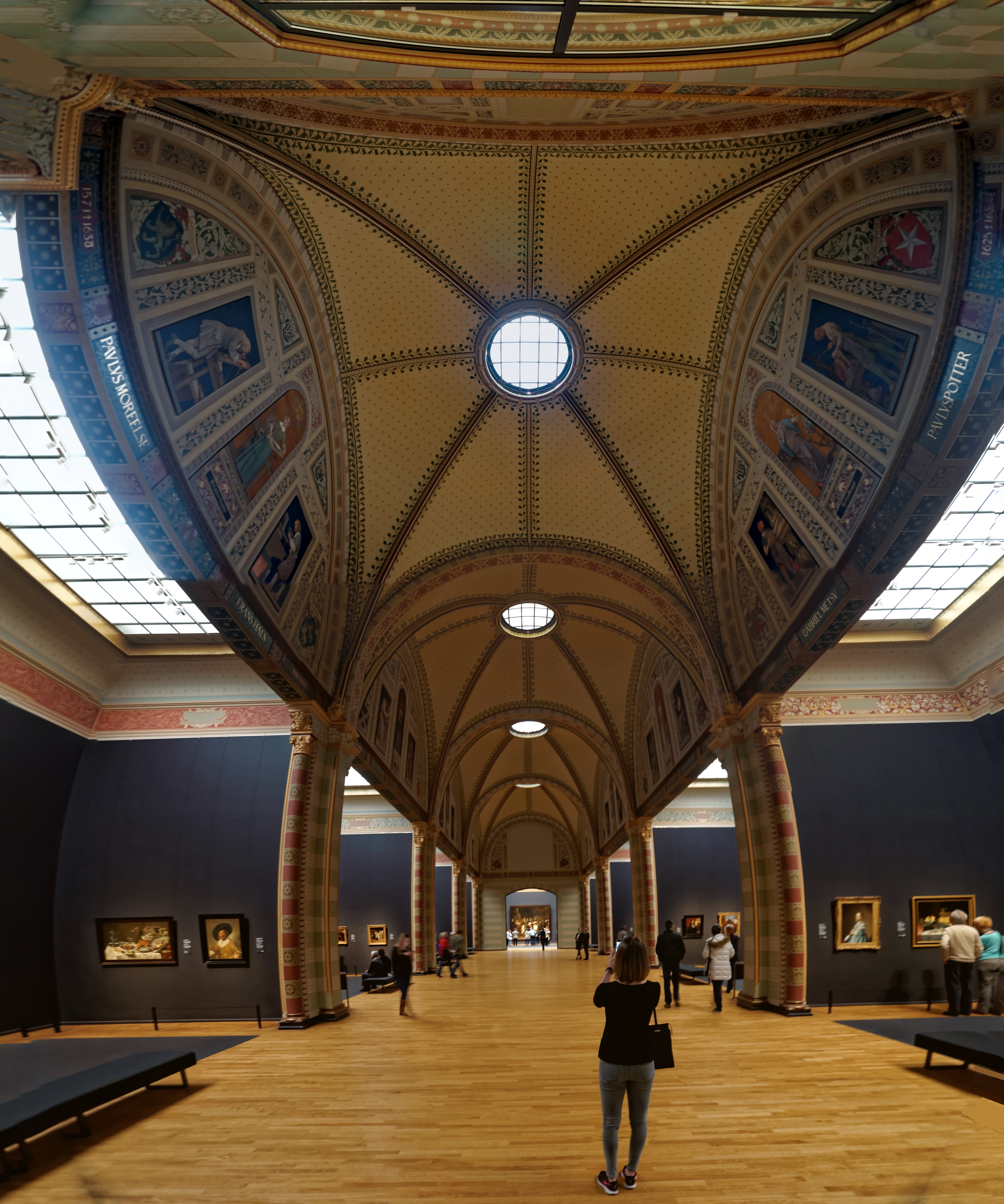 Amsterdam - Rijksmuseum - 1885 by Pierre Cuypers - Gallery of Honour (1st Floor)For details, move your mouse pointer to the photo above, and click the links or the image in the yellow rectangle, please. Works only on computer desktops, not in mobile view.